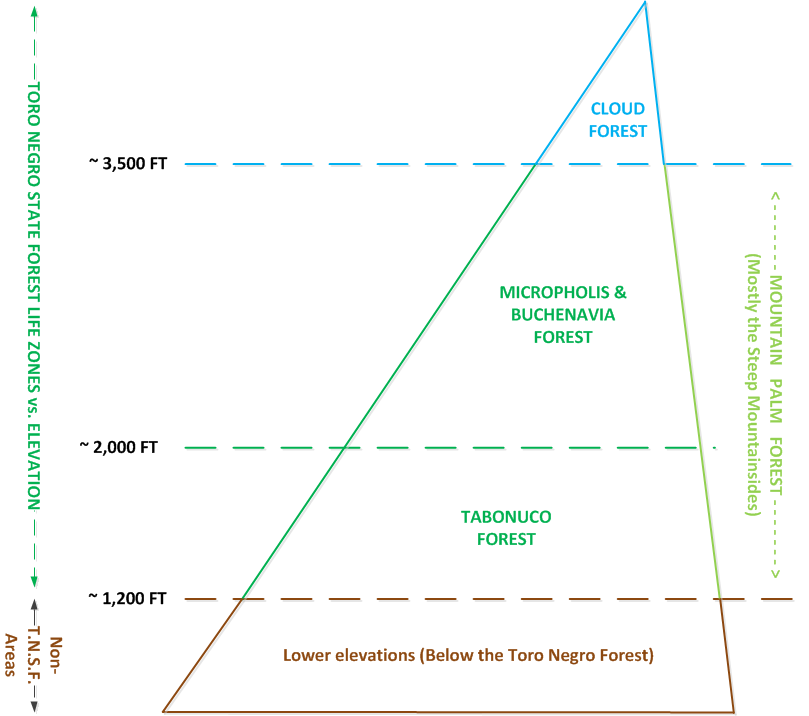 Diagrama (formato PNG) mostrando las zonas de vida en el Bosque Estatal Toro Negro, Ponce, Puerto Rico